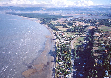 Image of Mapua, Tasman region, South Island, New Zealand; taken from a hang glider above Ruby Bay cliffs